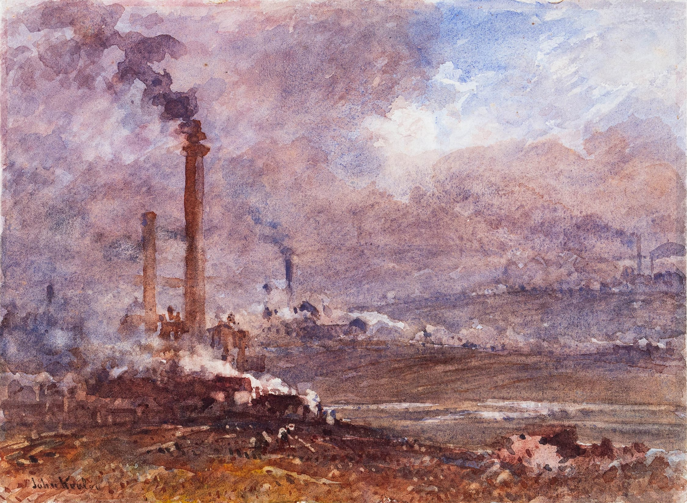 Offered for sale by Abbott and Holder in December 2019, when it was described as "KEELEY John (1849-1930) ‘Among the Coal Pits, Staffordshire’. Watercolour. Signed. Inscribed on the artist’s label. 9.5x9 inches."